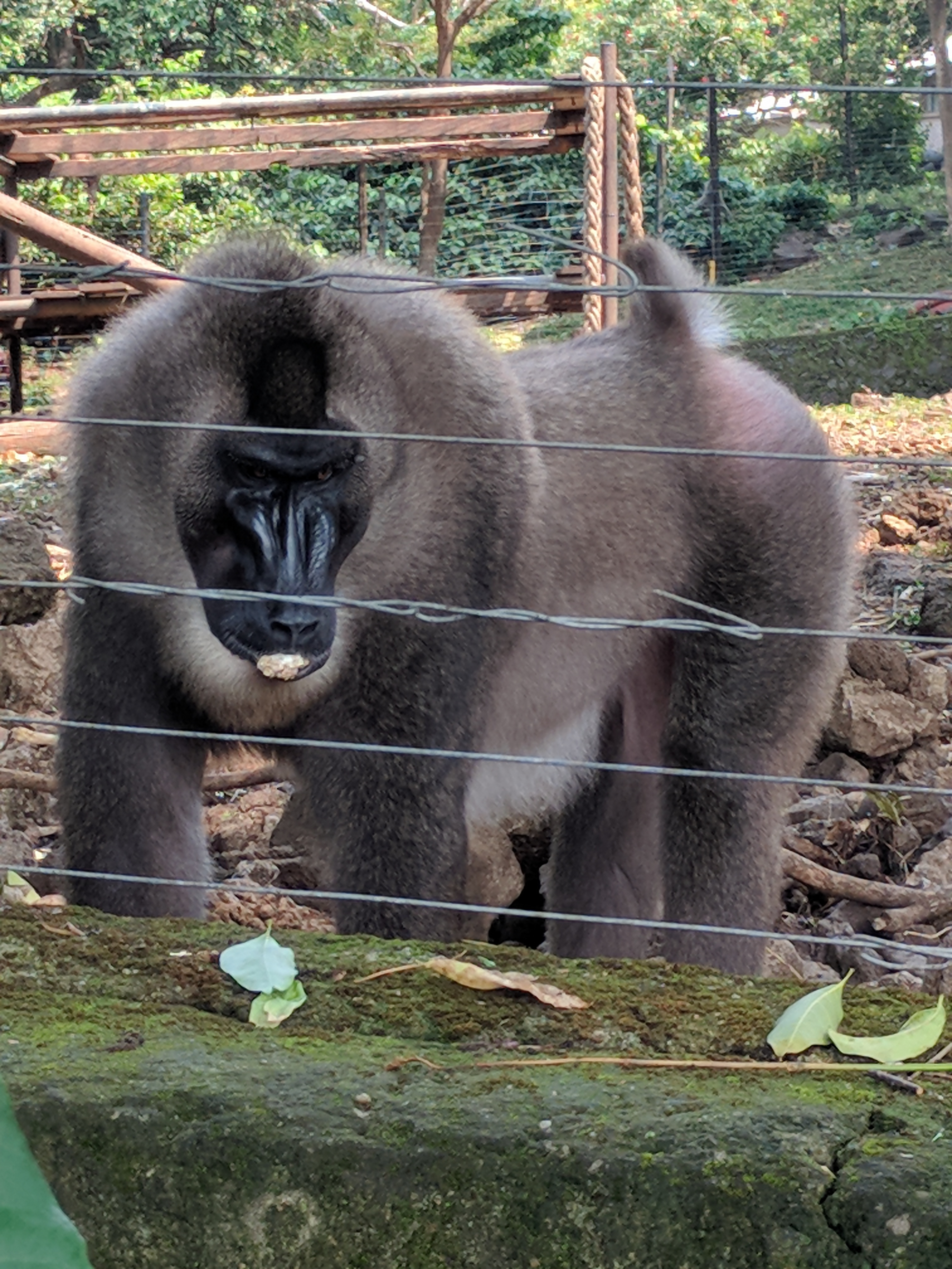 Picture presenting a drill at the Limbe wildlife centre located in the South West Region of Cameroon